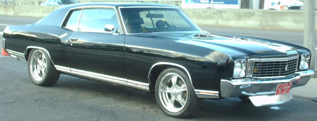 1972 Chevrolet Monte Carlo photographed in Montreal, Quebec, Canada.